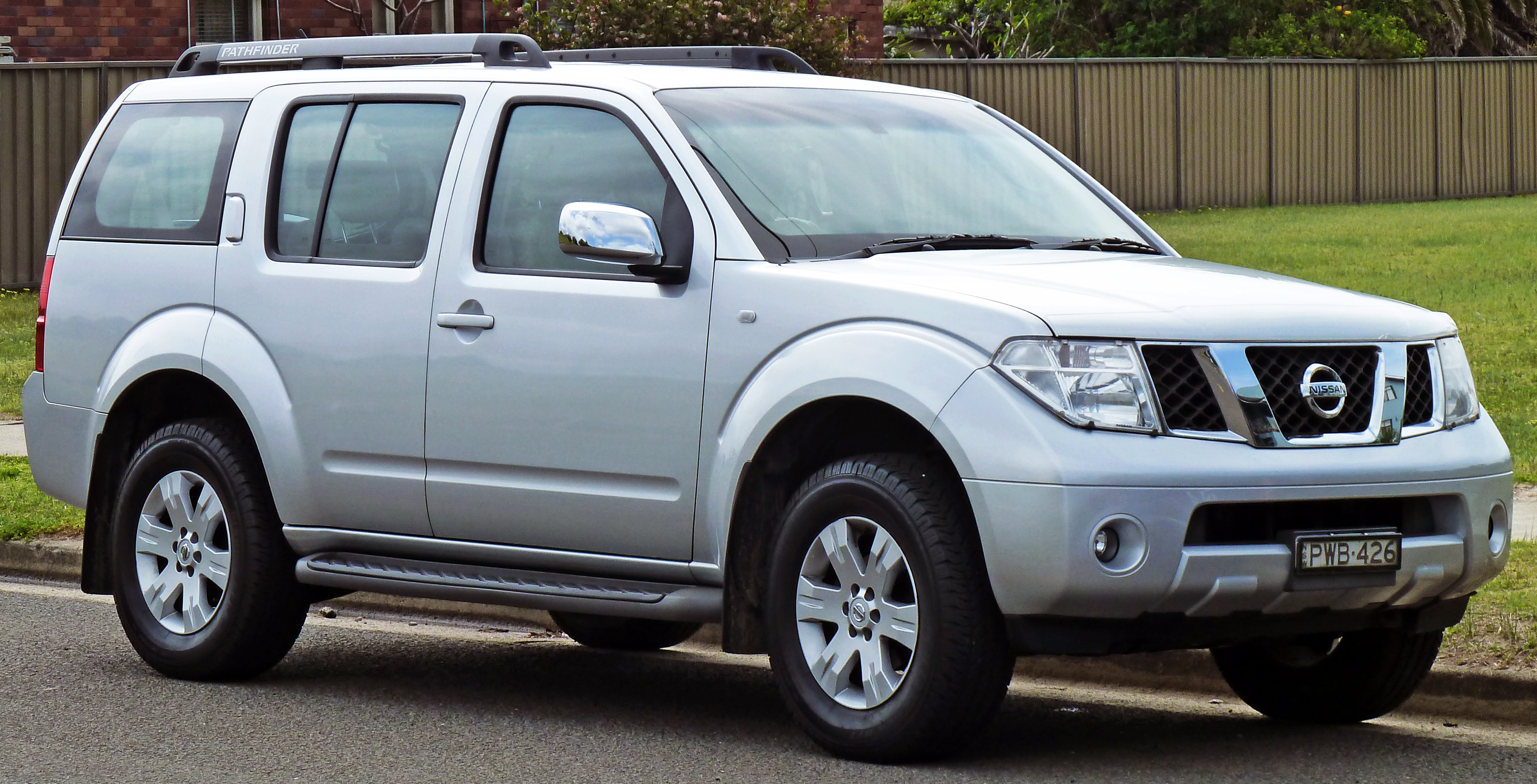 2005–2007 Nissan Pathfinder (R51) ST-L wagon. Photographed in Sans Souci, New South Wales, Australia.